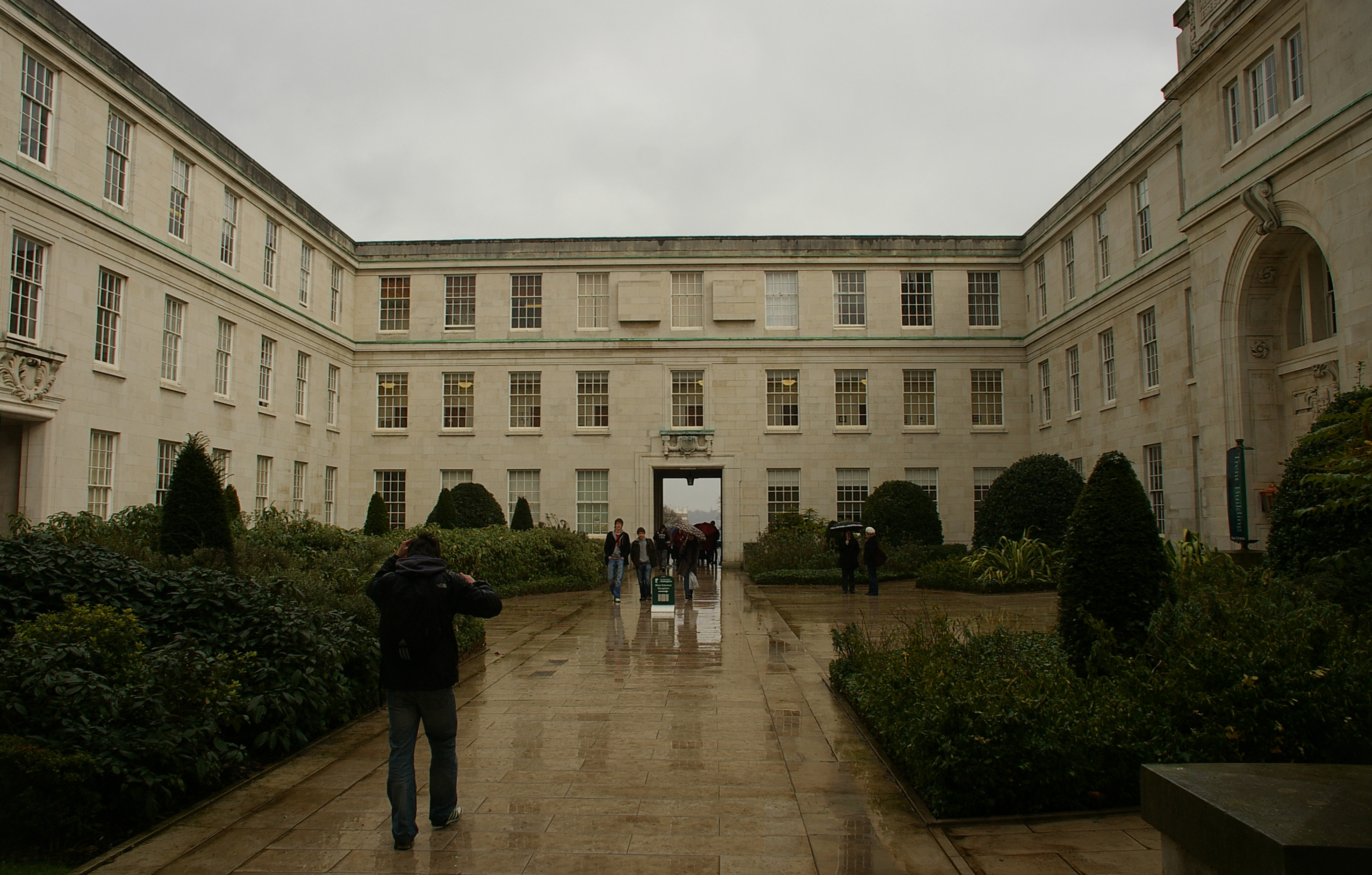 University of Nottingham Trent building courtyard.